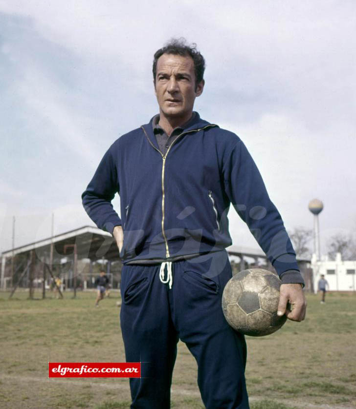 Ernesto Grillo as youth trainer.